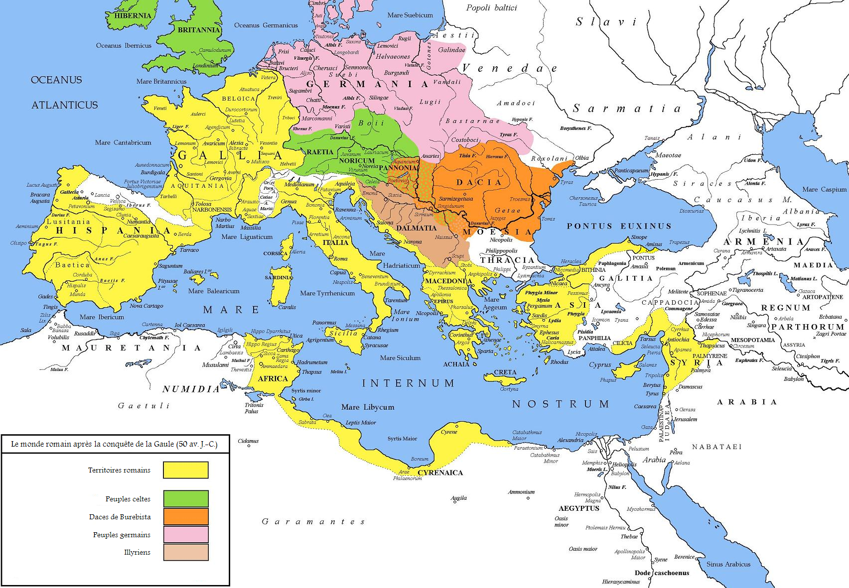 The Roman world in 50 BC, after Gallia's conquest by Caesar. (Note: Map doesn't show subordinate Roman client kingdoms in Anatolia and the Levant.)